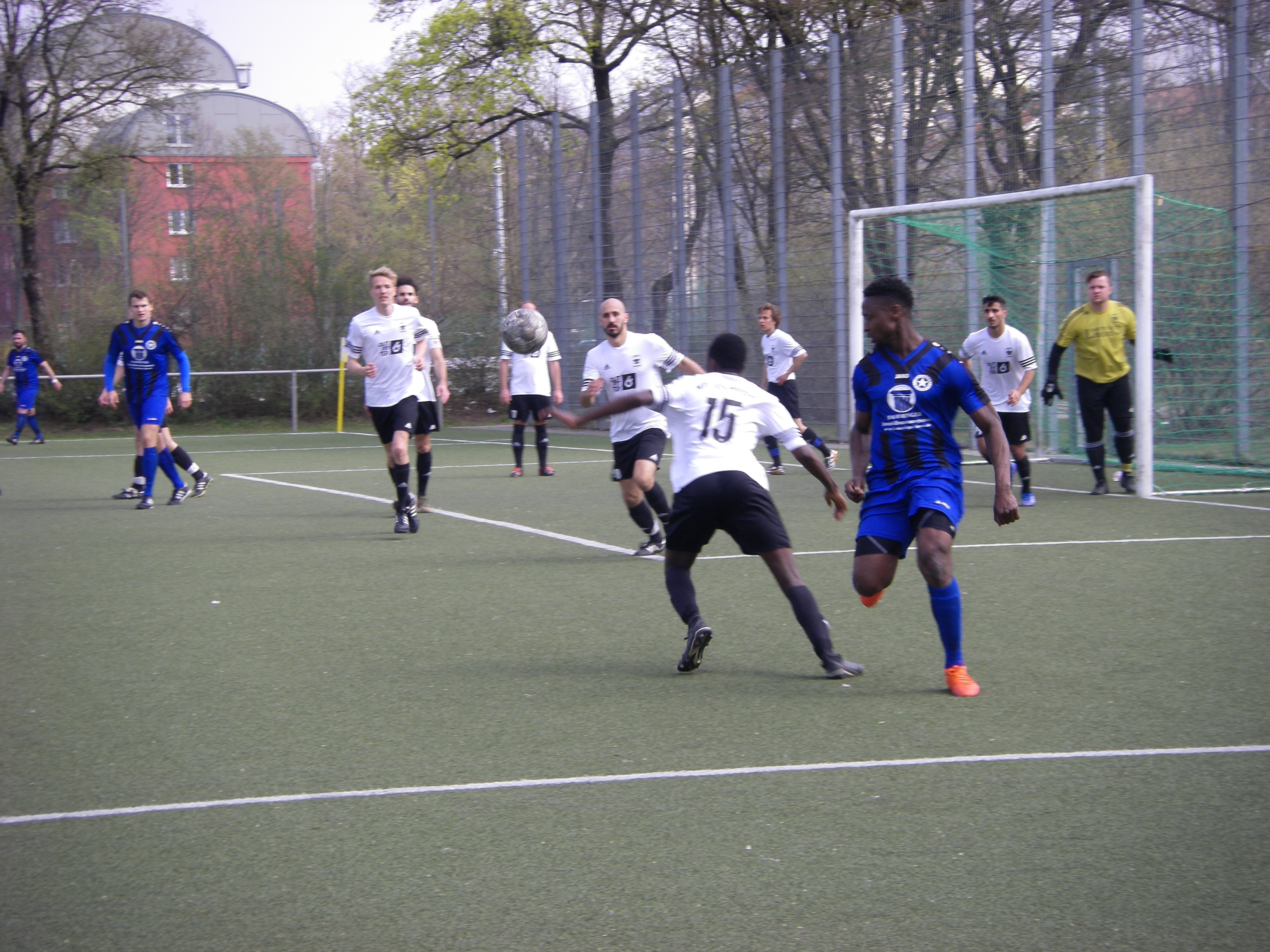 Scene of the traditional Munich derby between FC Wacker and MTV 1879 in which Wacker attacks the goal of MTV. The match has been played on Sunday, April 7, 2019 at Bezirkssportanlage Demleitnerstraße, home of FC Wacker.